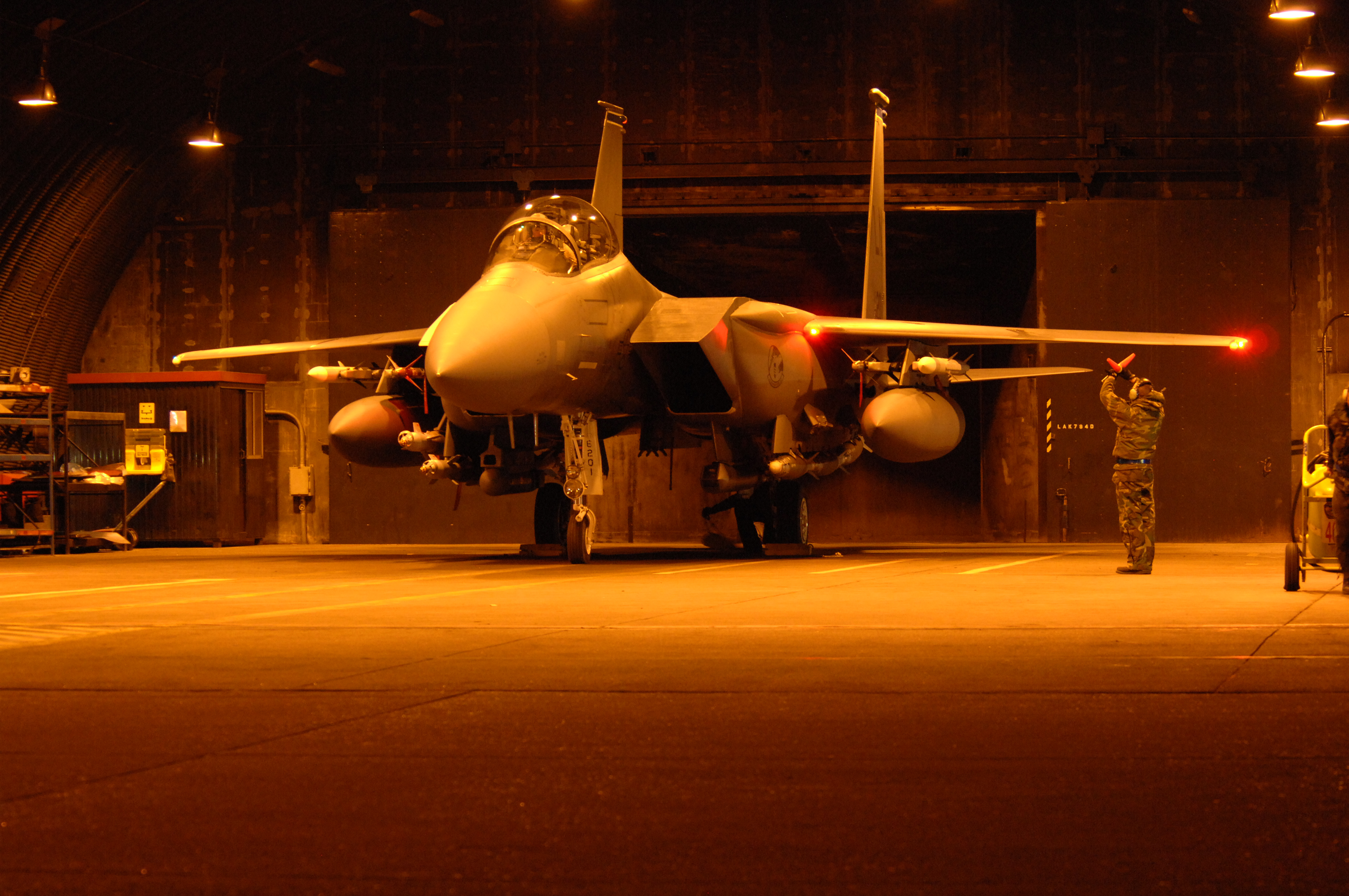 U.S. Air Force Maj. Lucas Teel, a 492nd Fighter Squadron (FS) pilot, and Lt. Col. Clint Mixon, the 492nd FS commander, prepare to taxi their U.S. Air Force F-15E Strike Eagle fighter aircraft prior to their departure from Royal Air Force Lakenheath, England, March 19, 2011. Units from the 48th Fighter Wing are conducting pre-deployment procedures in support of Operation Odyssey Dawn. The fighter wing provides all-weather, day or night air superiority and air-to-ground precision combat capability as well as combat search and rescue.